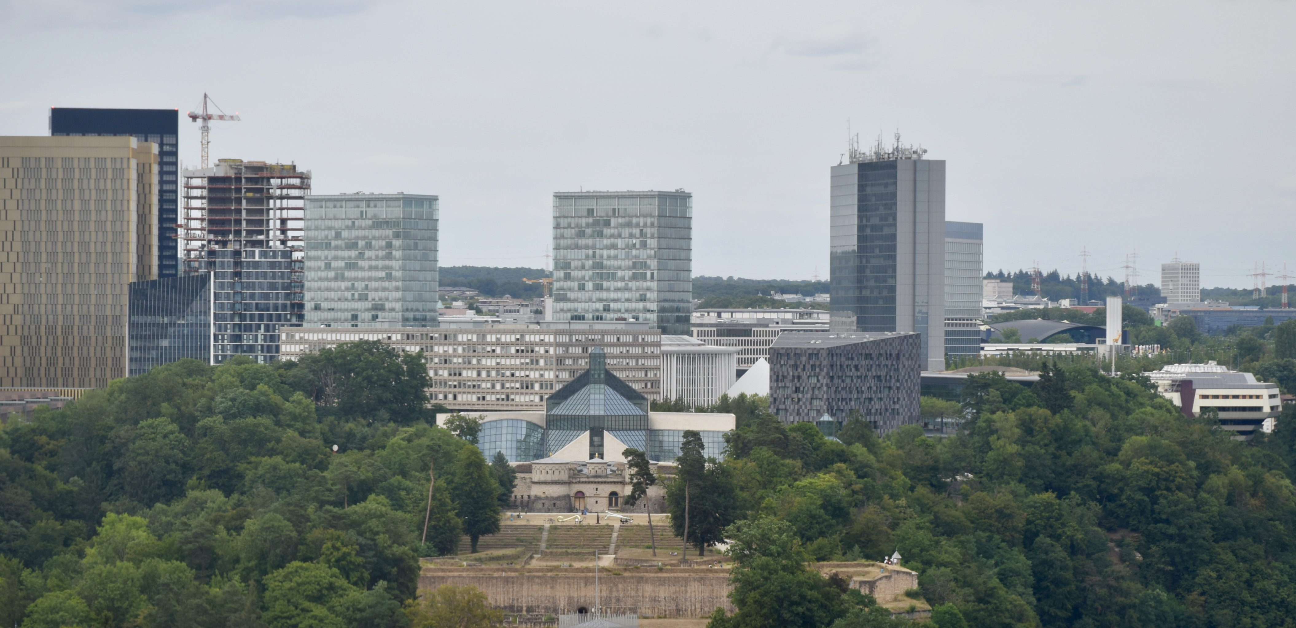 Quartier européen, Kirchberg, Luxembourg; Fort Thüngen (Mudam, Dräi Eechelen) in forefront